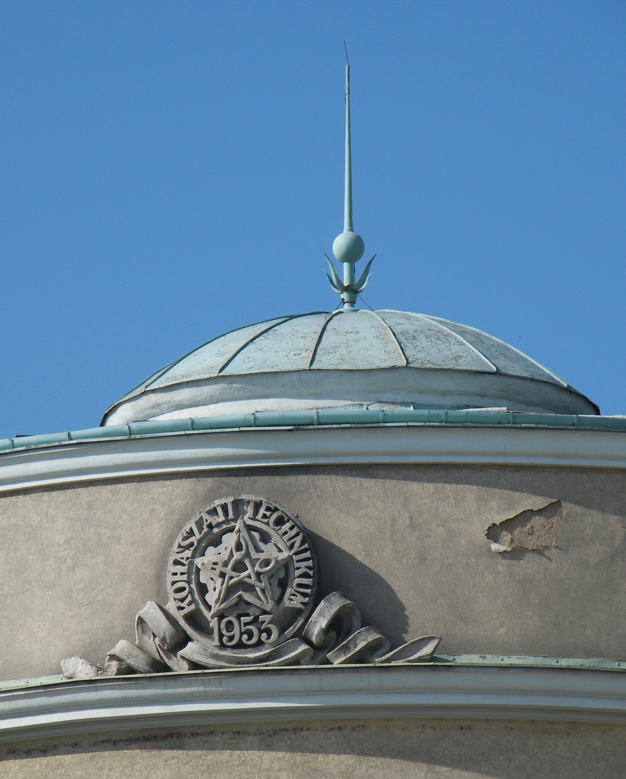 Dunaújváros High school crest, Dunaújváros